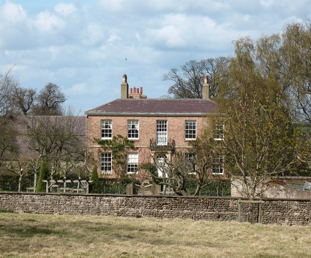 The Manor House, Marton-le-Moor, perhaps dating from the 1820s